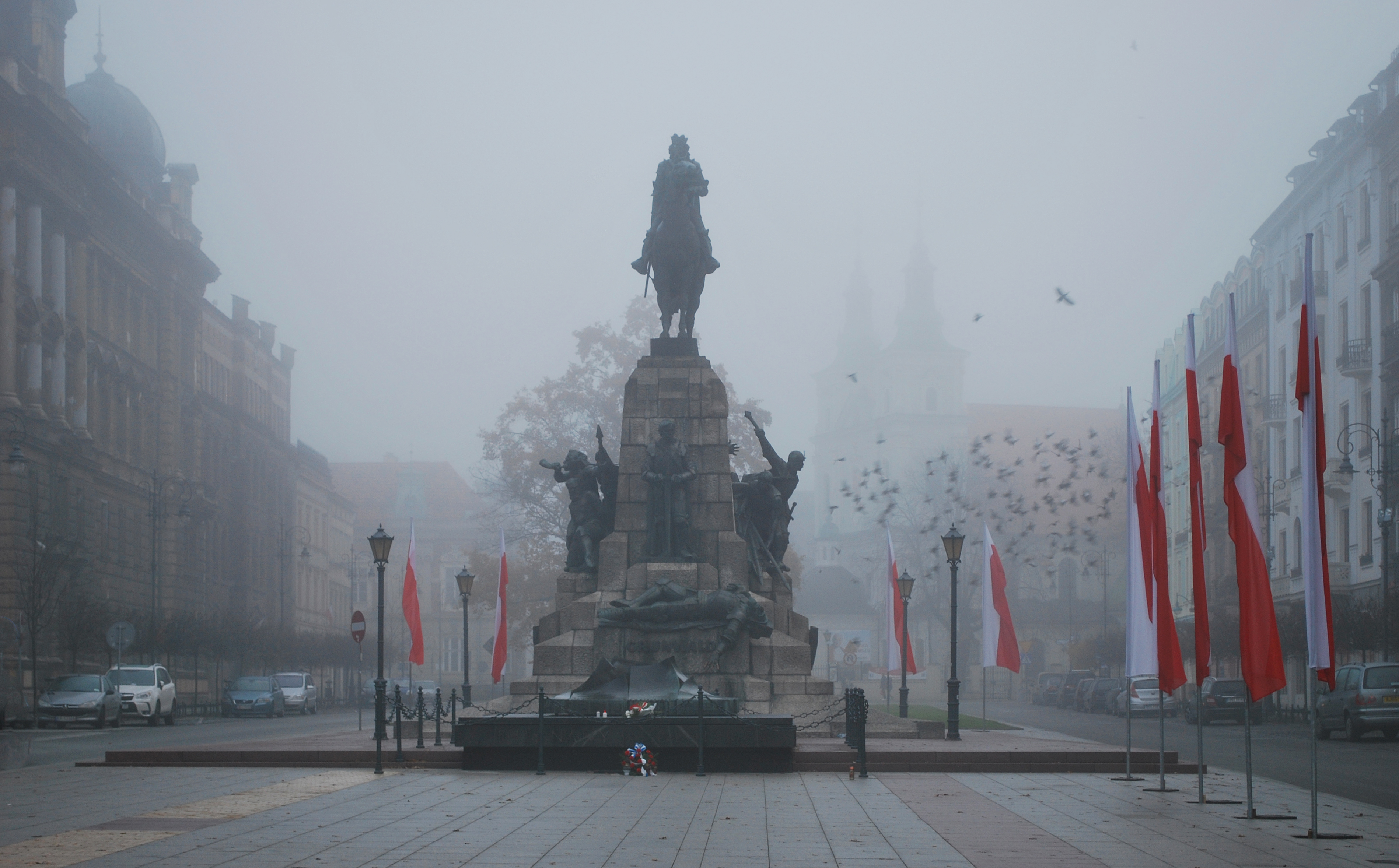 Battle of Grunwald monument and Tomb of the Unknown Soldier, Matejko Square, Kraków, Poland